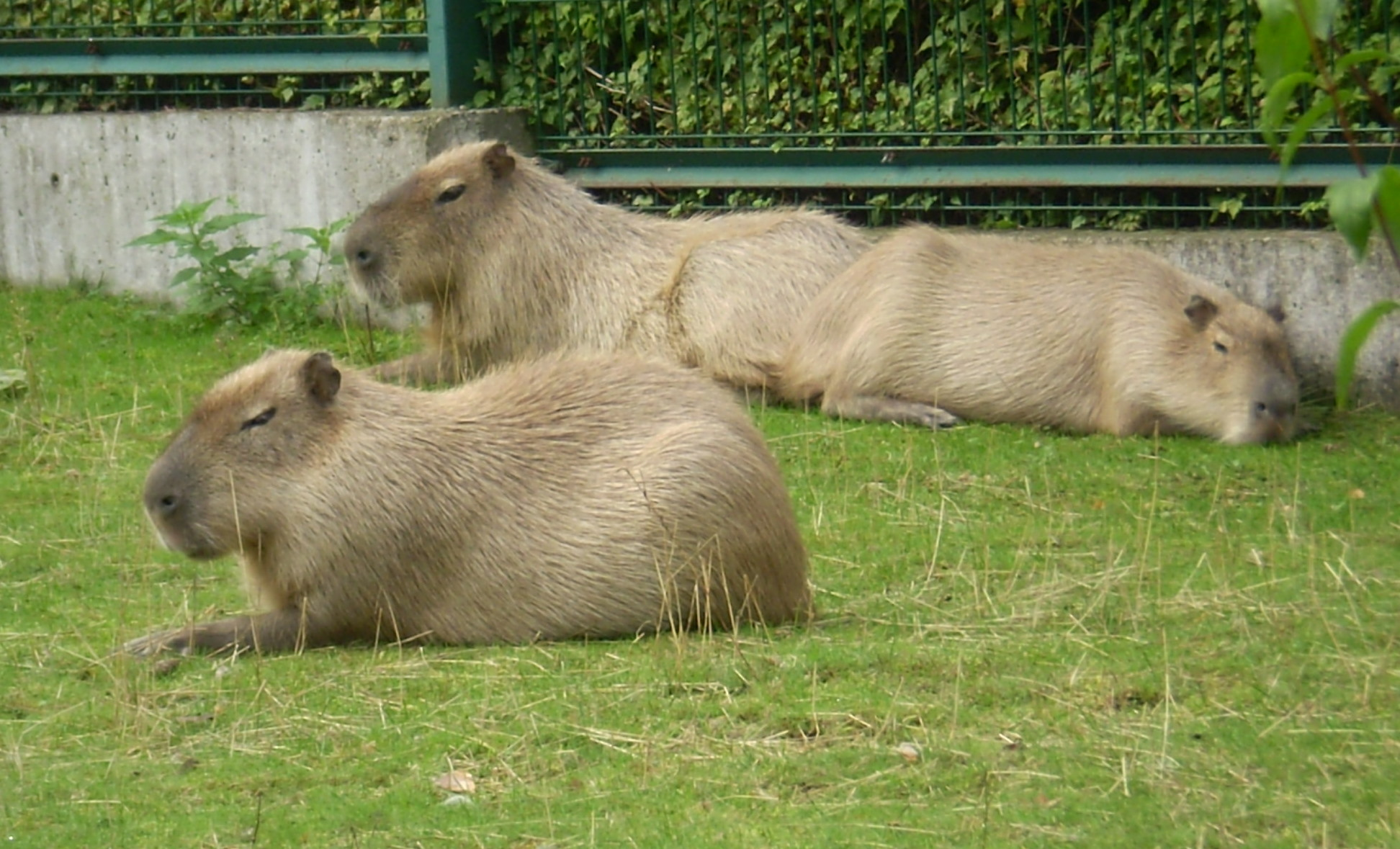 Capybaras in Riga Zoo